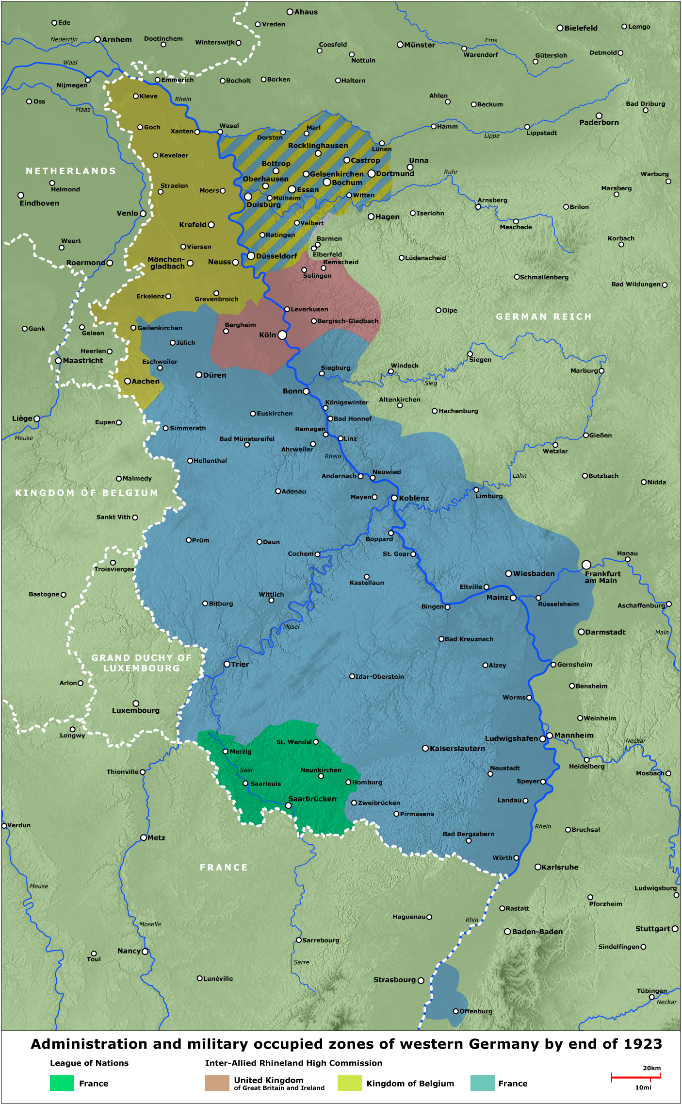 Map - Administration and military occupied zones of western Germany by end of 1923